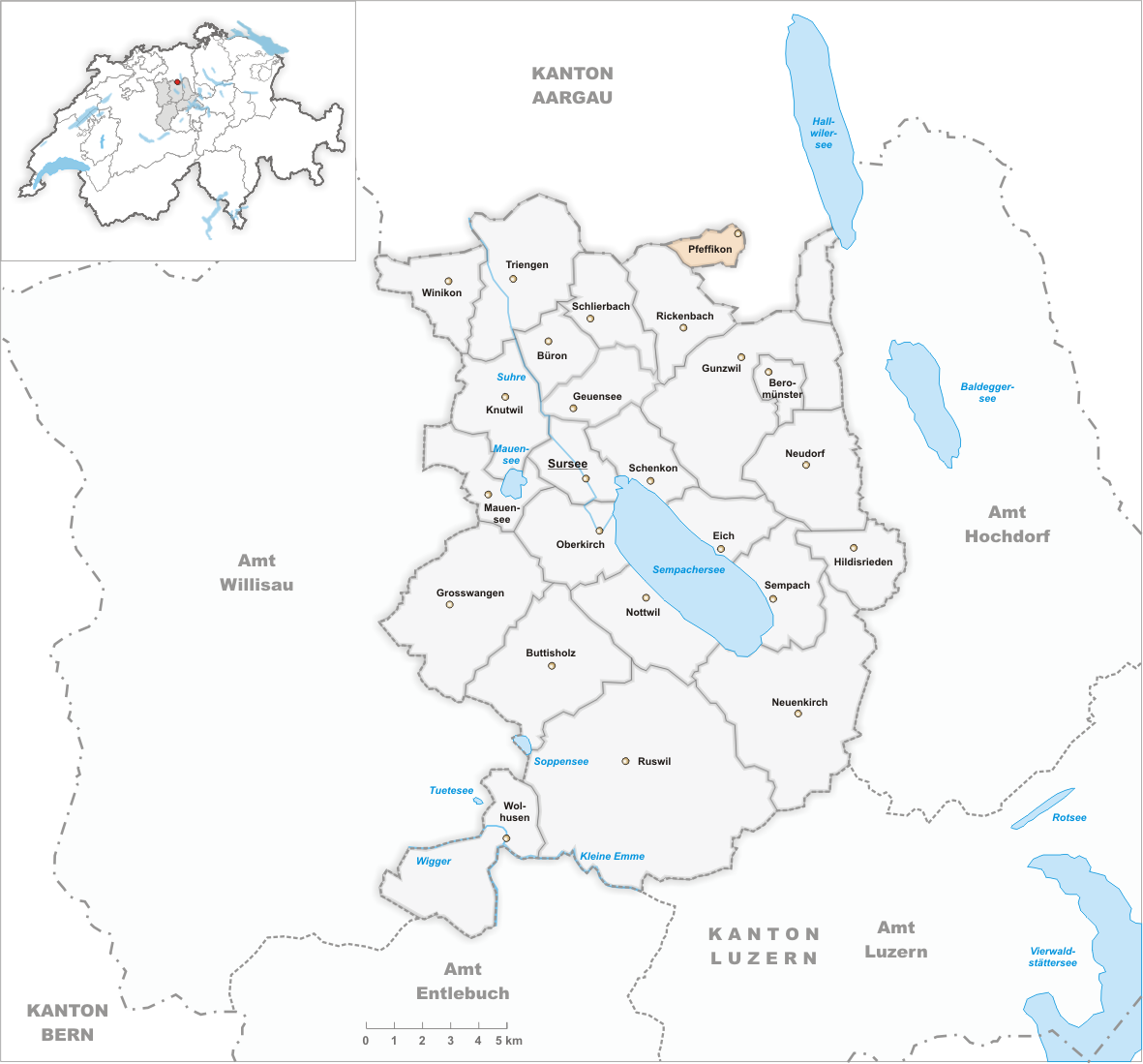 Municipality Pfeffikon